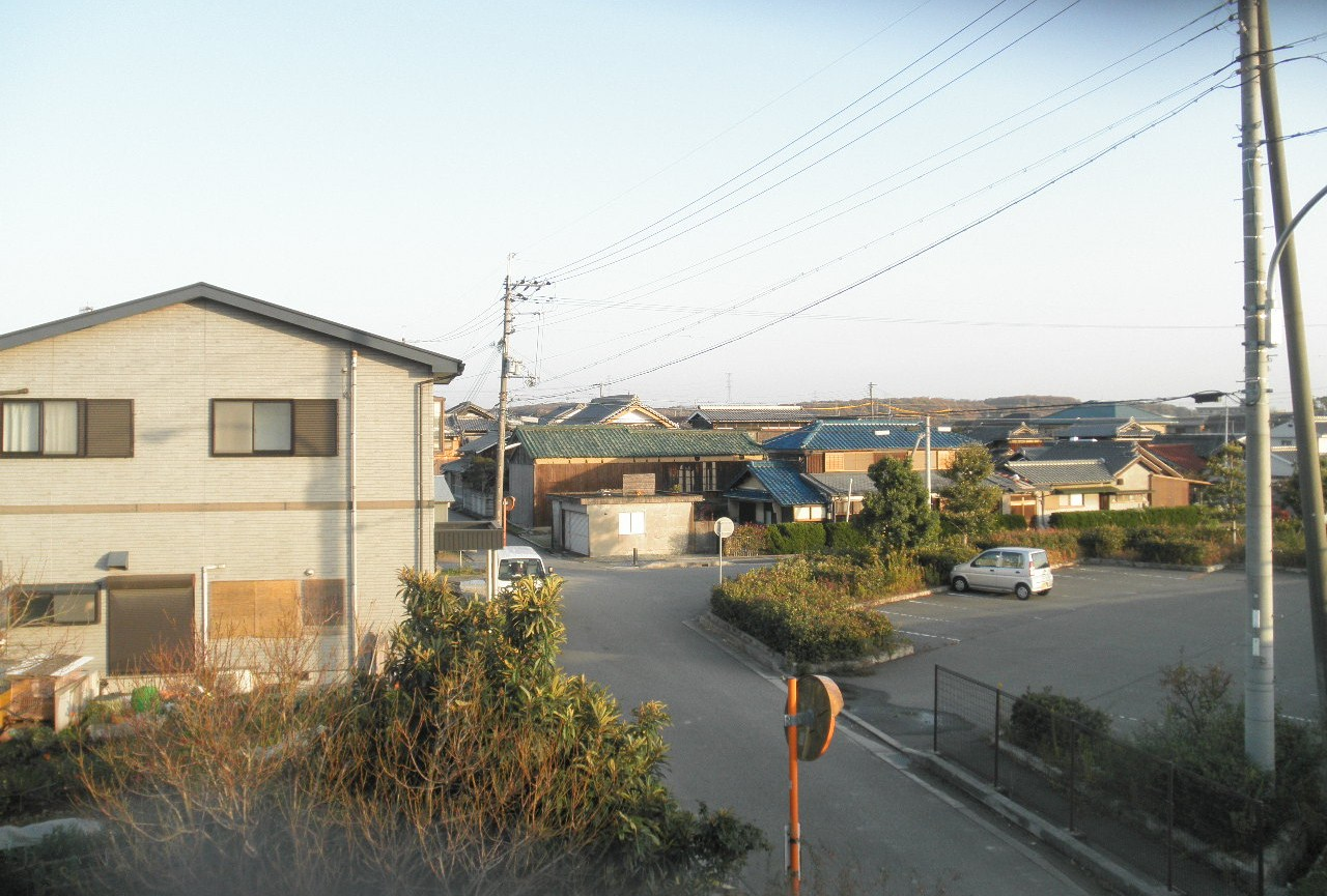 Kanisohtown Kunikane Kakogawacity Hyogopref